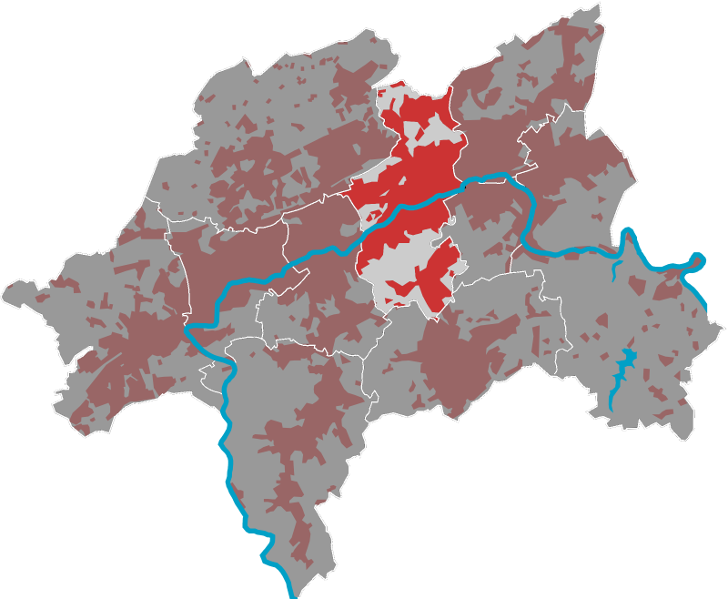 position of Barmen District, Municipality of Wuppertal, Germany